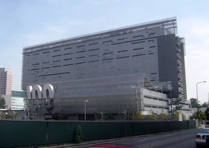 Los Angeles HQ of the California Department of Transportation (Caltrans), designed by Thom Mayne.